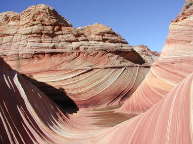 "The Wave" - a sandstone formation at the base of Coyote Buttes, Vermilion Cliffs National Monument, Arizona